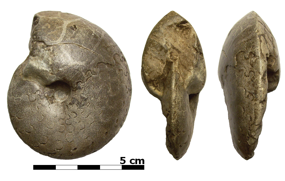 Metatissotia sp. specimen from Morocco.